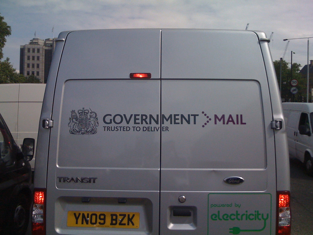 UK Government Mail Van